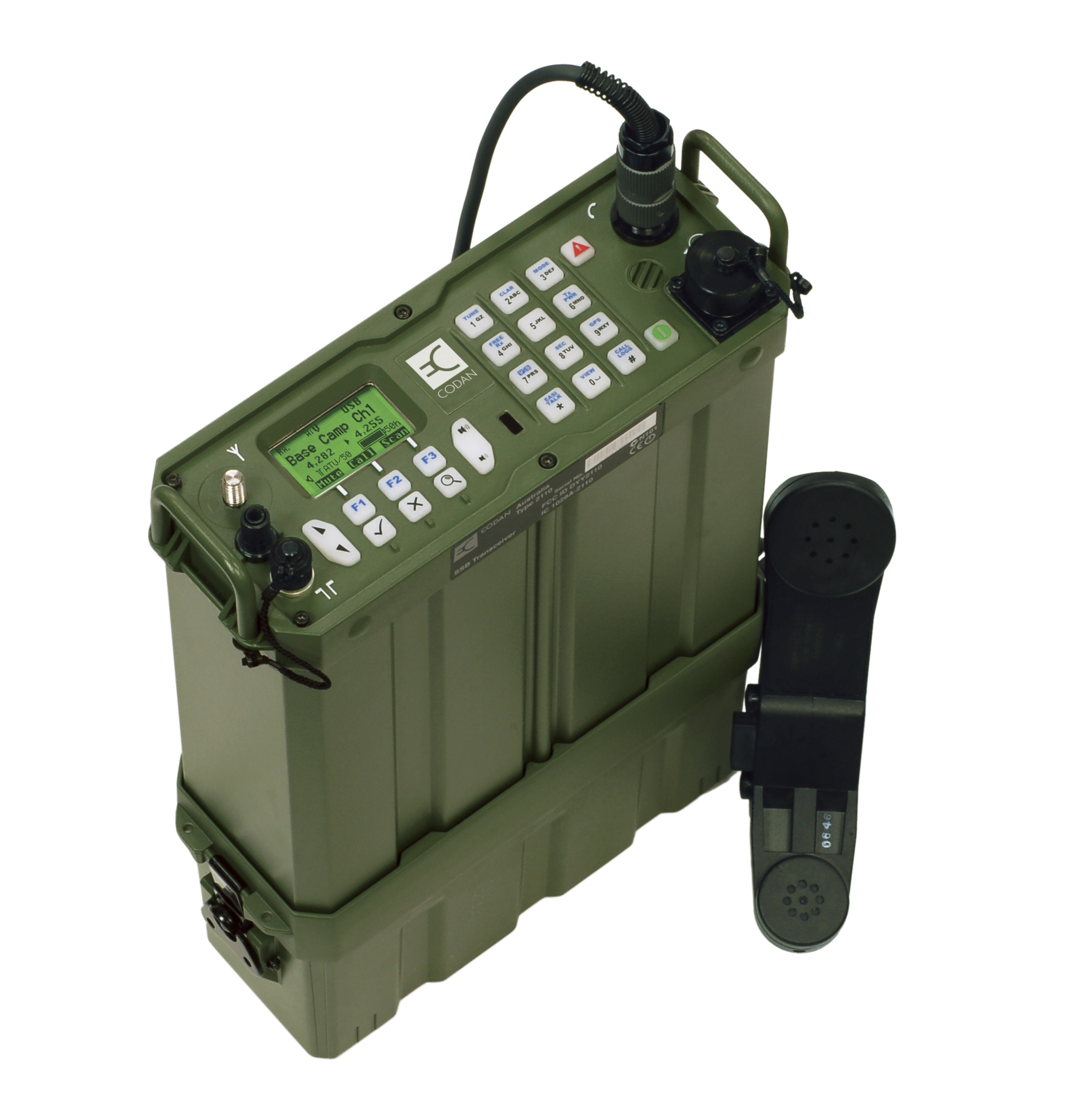 2110M Manpack radio for military man-portable HF Radio communications